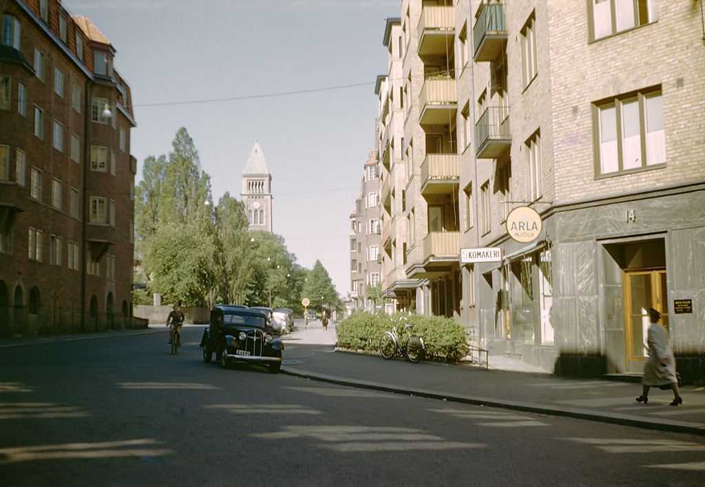 Geijersgatan street in Gothenburg. In the background is Vasa Church. Geijersgatan i Göteborg. I bakgrunden Vasakyrkan. Parish (socken): Göteborg Province (landskap): Västergötland Municipality (kommun): Göteborg County (län): Västra Götaland Photograph by: Fredrik Bruno Date: May 1948 Format: Colour slide See a recent photo of the same view: Persistent URL: Read more about the photo database (in english)